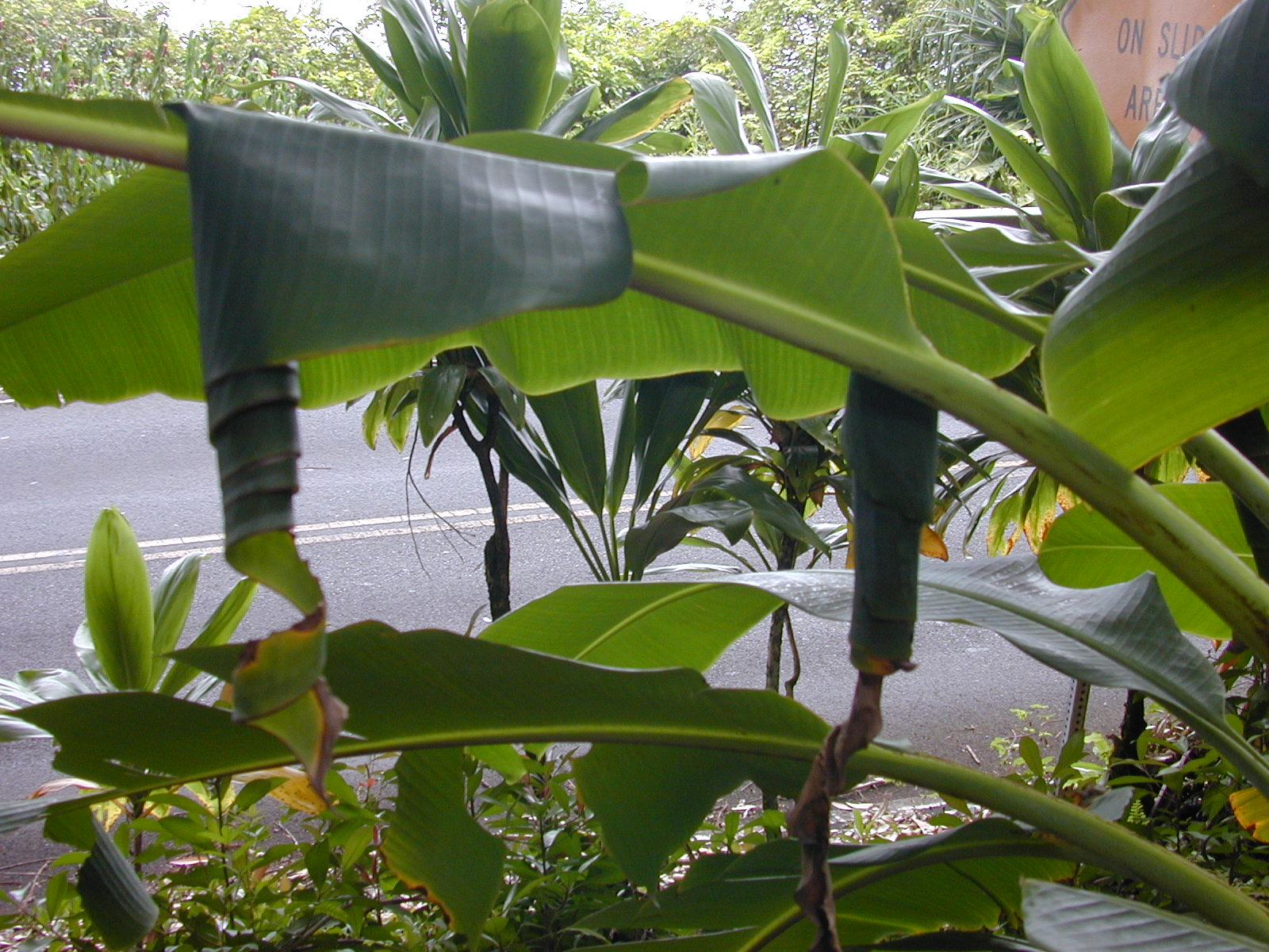 Musa sp. (with Pelopidas thrax (Hübner, 1821) banana skipper rolled leaves). Location: Maui, Kaumahina Hana Hwy